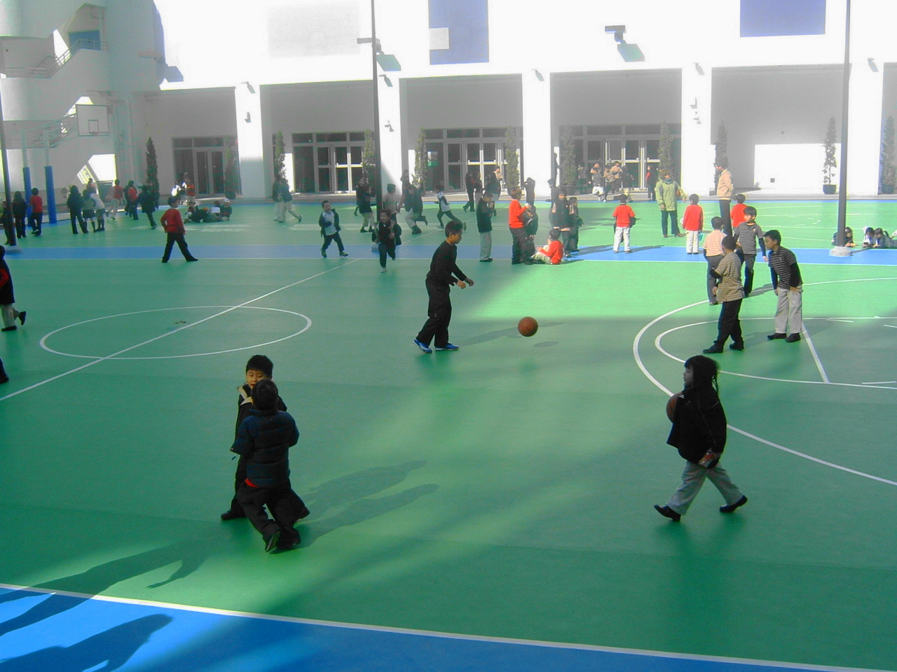 The basketball court of Renaissance College, Hong Kong.